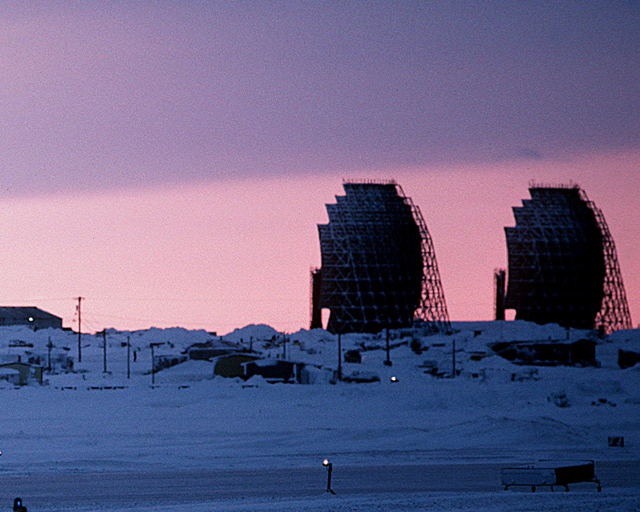 Cropped version, focusing on White Alice troposcatter communication antennas. Original description:The sun sets behind a radar station. The station is one of 30 under U.S. Air Force control on the Distant Early Warning (DEW) Line which runs approximately 3,600 miles, from Alaska, across Northern Canada to Greenland. Location: BARTER ISLAND, ALASKA (AK) UNITED STATES OF AMERICA (USA)